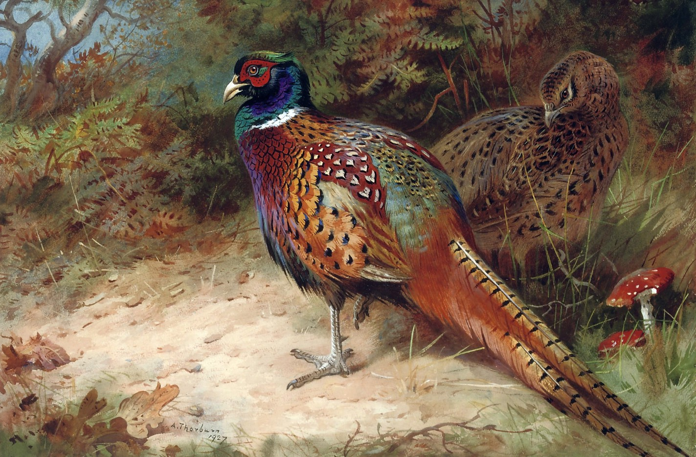 "Cock and hen pheasant in the undergrowth"